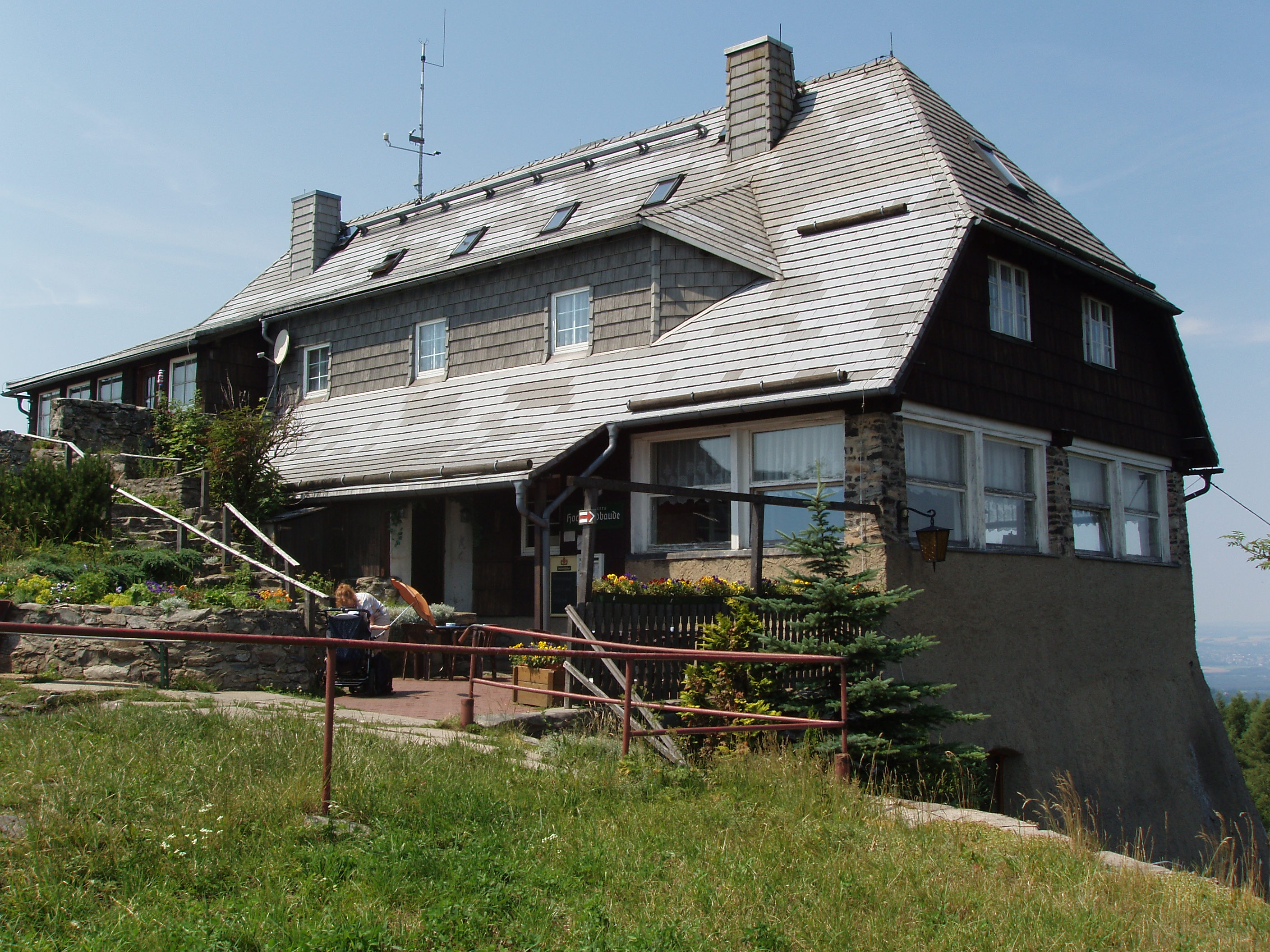 Restaurant on Mount Hochwald near the German city of Oybin.